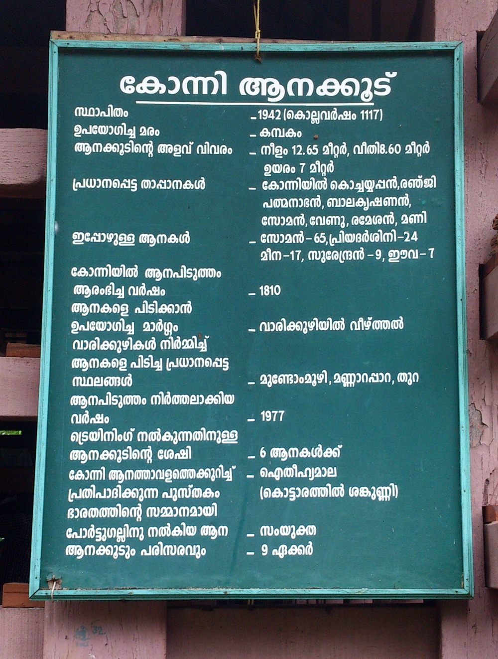 This details board is displayed at the Konni Elephant Cage. The board describes the historical details of the Cage.